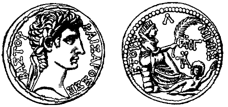 An illustration from the Encyclopaedia Biblica, a 1903 publication which is now in the public domain. for article "Stater". Image of a silver stater from Antioch. The front shows the head of Octavian, with the title 'Kaisaros Sebastou' (= Greek for 'Caesar Augustus'). On the back is an anthropomorphic figure of 'Fortune' - specifically the fortune of Antioch - holding a palm branch. At Fortune's feet is a depiction of Orontes - the river-god - as if swimming in water. This appears to be based on a style created by the sculptor Eutychides, shortly after Antioch was founded (compare File:EutychidesAntiocha.jpg).